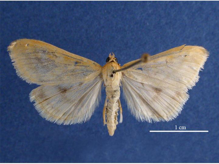 Ostrinia nubilalis female, dorsal view. Specimen Locality Label: Debrecen, Hungary. Col: I Szarukán (Department of Crop Protection, University of Debrecen, Hungary)